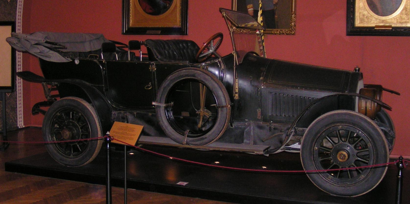 The Gräf & Stift Double Phaeton automobile in which the Archduke Franz Ferdinand of Austria was riding at the time of his assassination on June 28, 1914. The car is part of the permanent collection at the Heeresgeschichtliches, the Museum of Military History, in Vienna, Austria. The bullet which killed the Archduke's wife Sophie left a hole in the side of the car which can be seen above the rear wheel as a small silver circle in the black paint. Archduke Ferdinand wore a bullet proof coat at the time the assassinations were going on, so Gavrilo Princip had no other way of killing him other than a head shot.